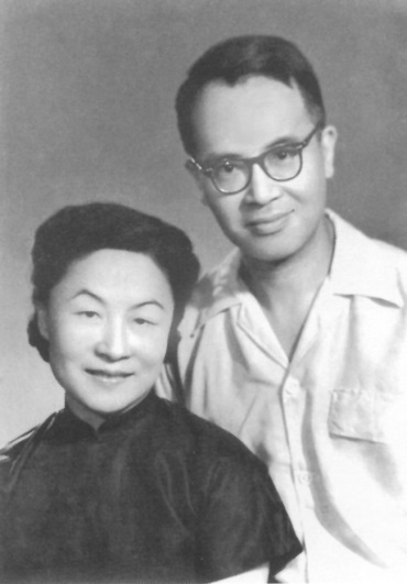 Chinese author and scientist Qian Zhongshu and his wife Yang Jiang in 1962